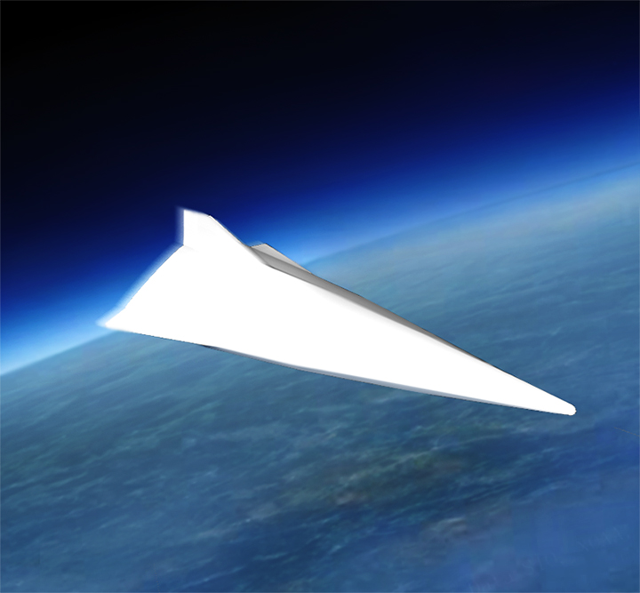 One of the Chinese hypersonic gliding vehicle projects. Its configration was first exposed by Military Report on CCTV-7.